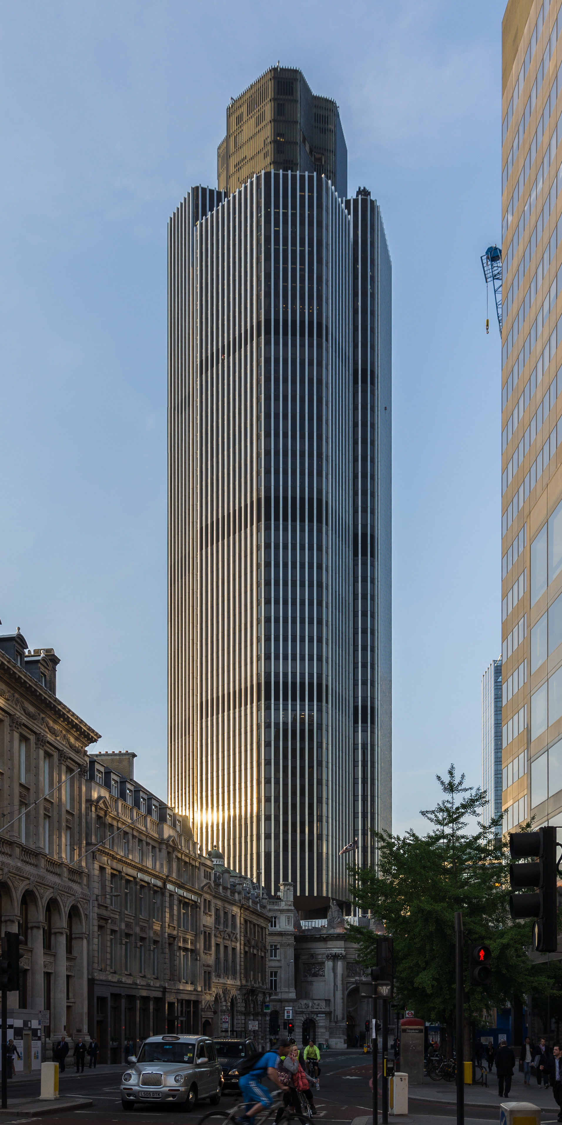 Tower 42 looking north from Bishopsgate.